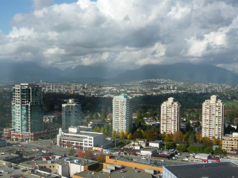 High rise buildings in Metrotown